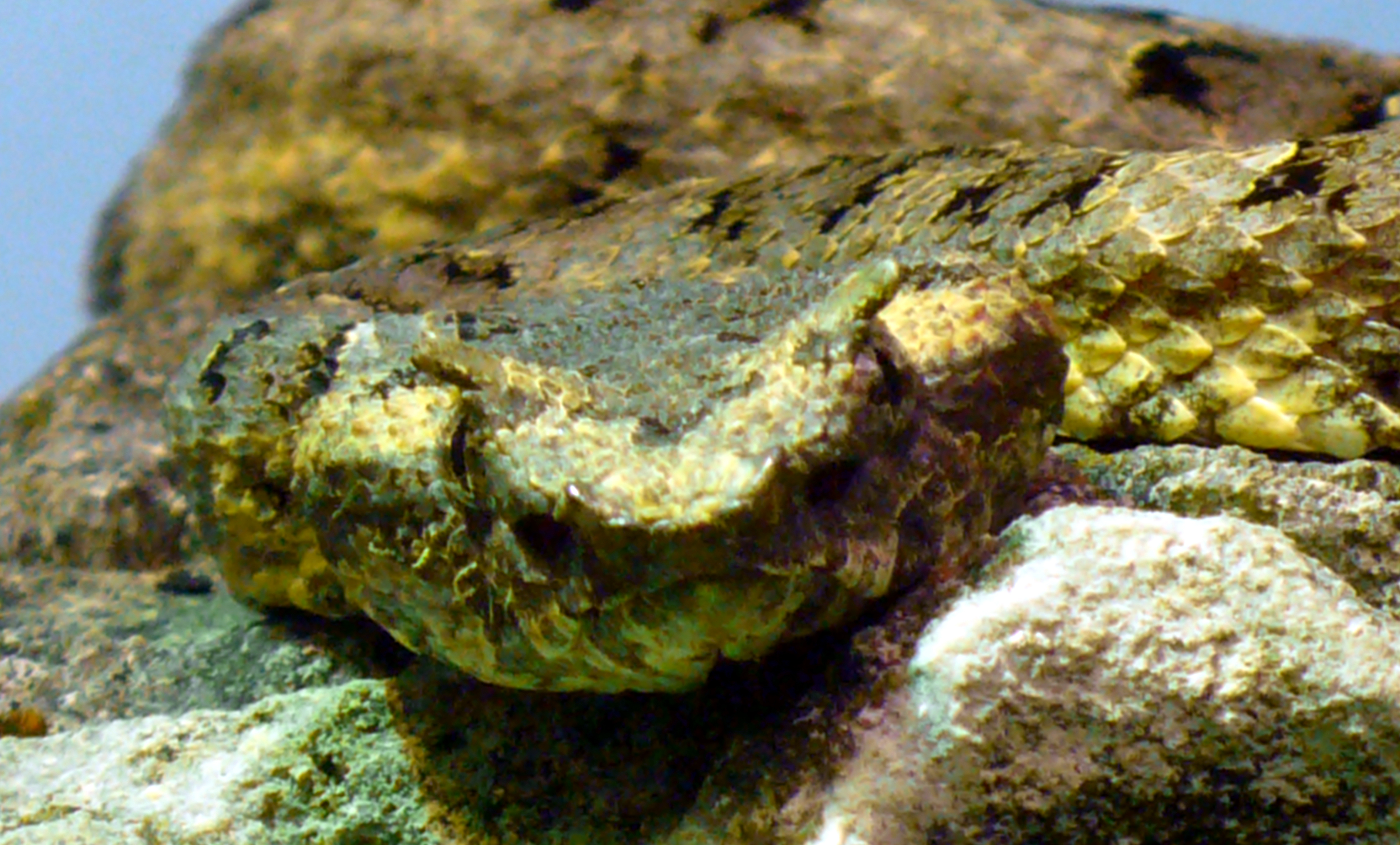 Fan-Si-Pan horned pitviper (Protobothrops cornutus, previously Trimeresurus cornutus)